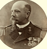 Cohen Stuart